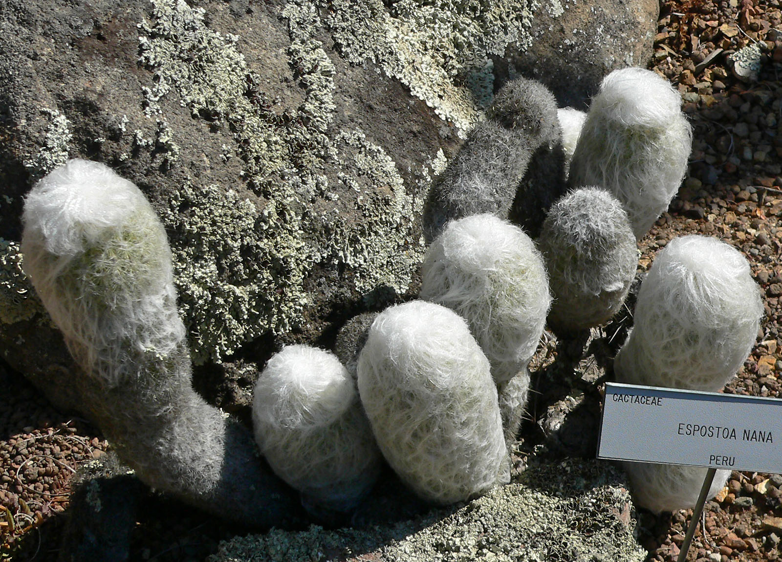 Espostoa nana at the University of California Botanical Garden, Berkeley, California